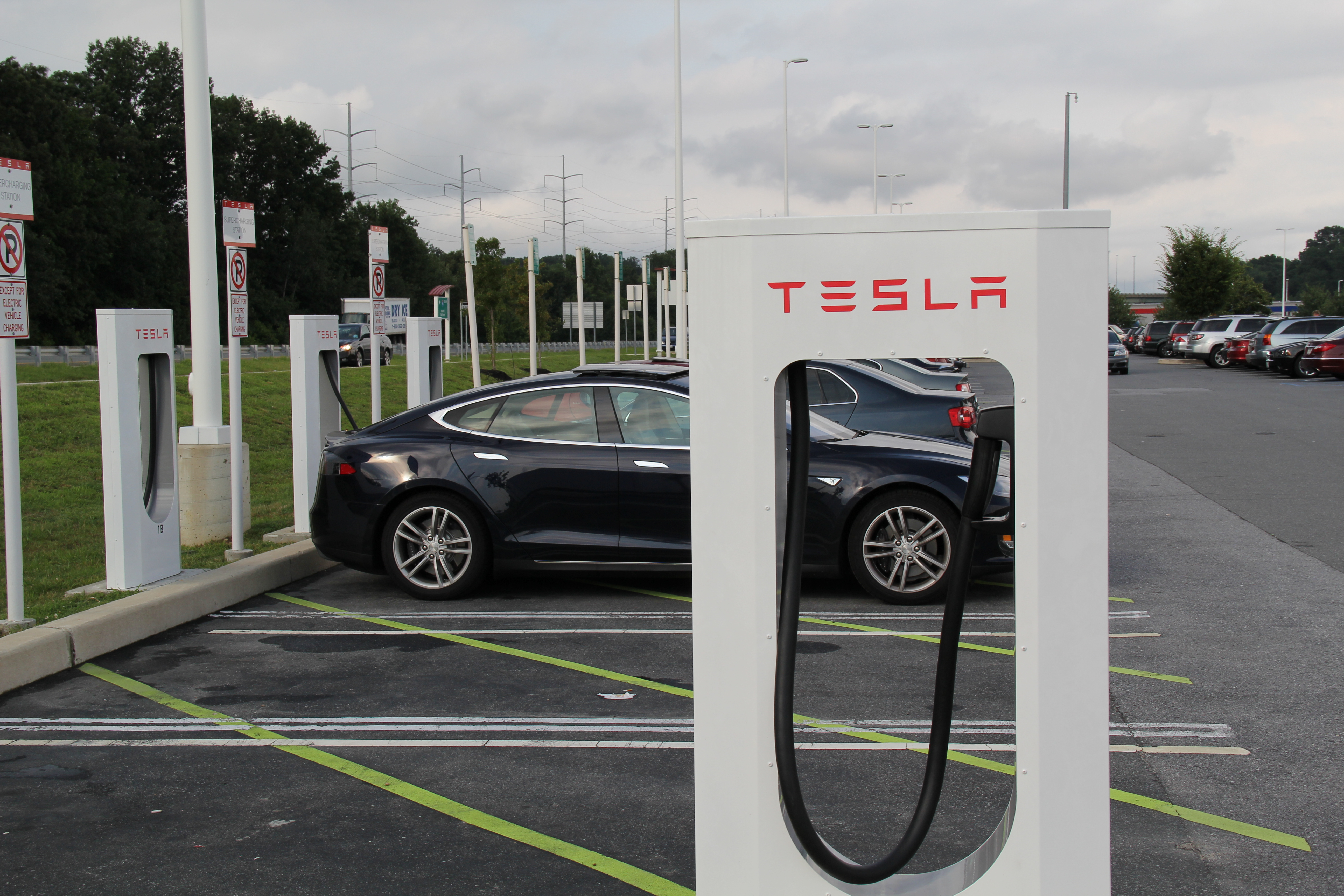 Tesla Model S charging at a Tesla Supercharger station at Delware